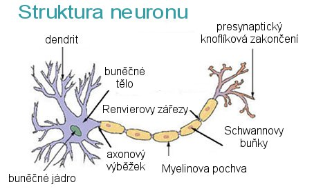 This is the image Neuron.jpg translated into Czech.